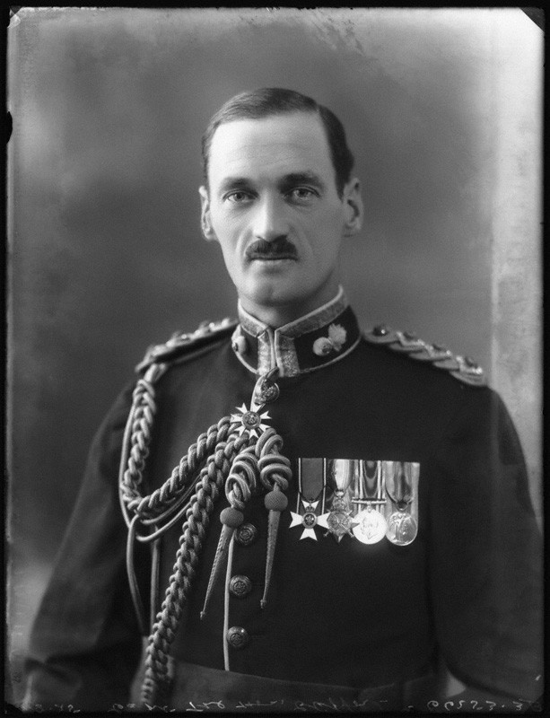 Bede Edmund Hugh Clifford, in 1925